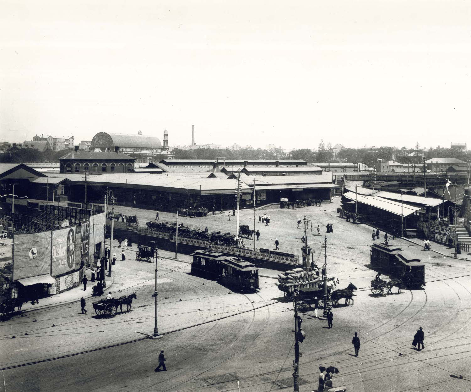 Title: A view of the old Sydney Railway Station on the corner of Devonshire and George Streets (NSW) Dated: c.1900 Digital ID: Series: State Rail Authority Archives Photographic Reference Print Collection Rights: No known copyright restrictions We'd love to if you use our photos/documents. Many other photos in our collection are available to view and browse on our website using